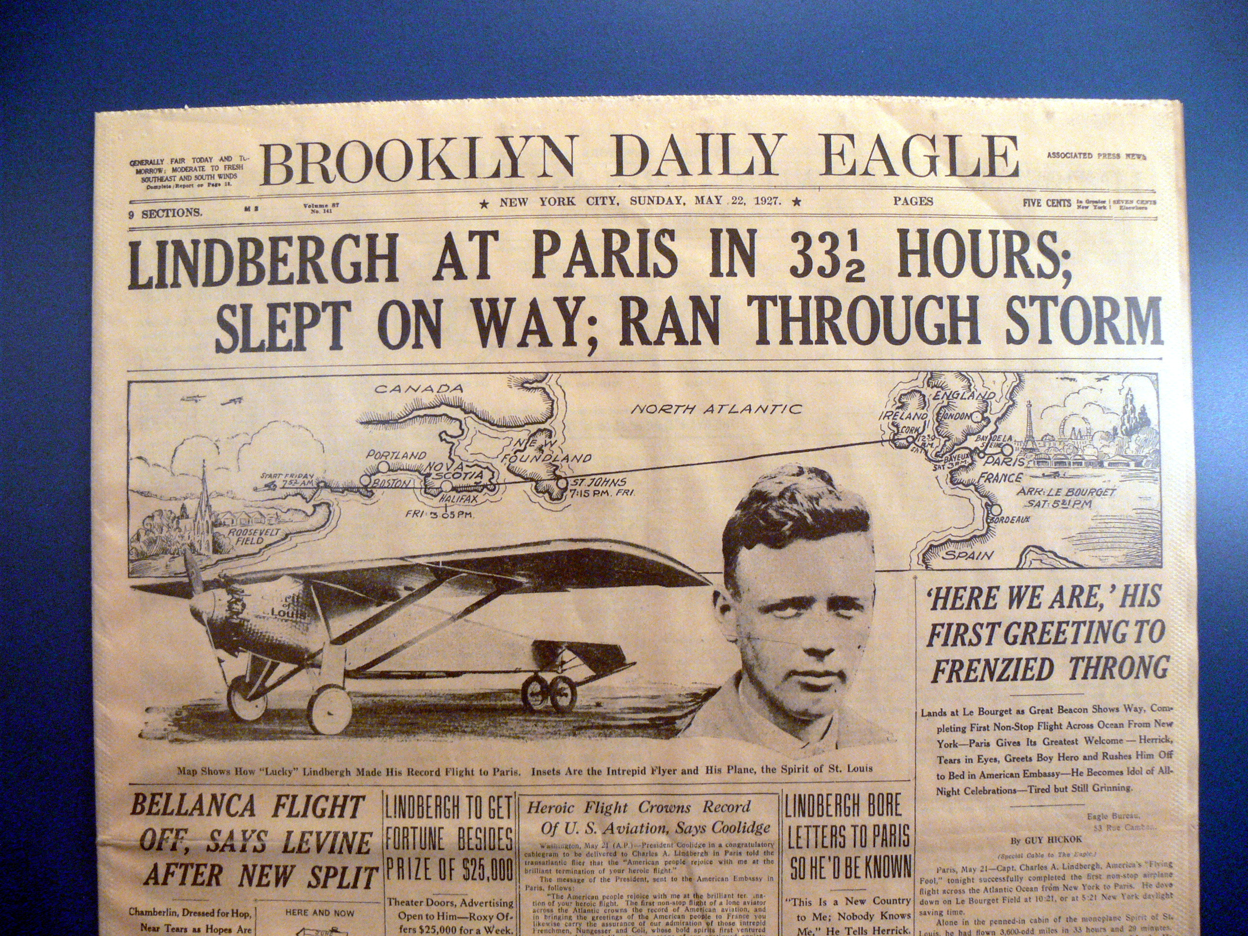 Woolaroc, Oklahoma. Frontpage of the "Brooklyn Daily Eagle" 22-05-1927: Charles Lindbergh crosses the Atlantic Ocean.